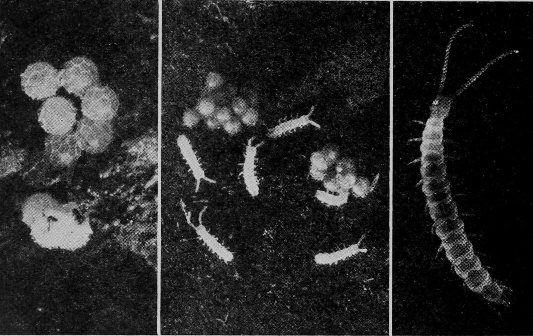 The garden centipede, Scutigerella immaculata (Newport). Left: eggs; Middle: eggs and newly hatched young; Right: adult.